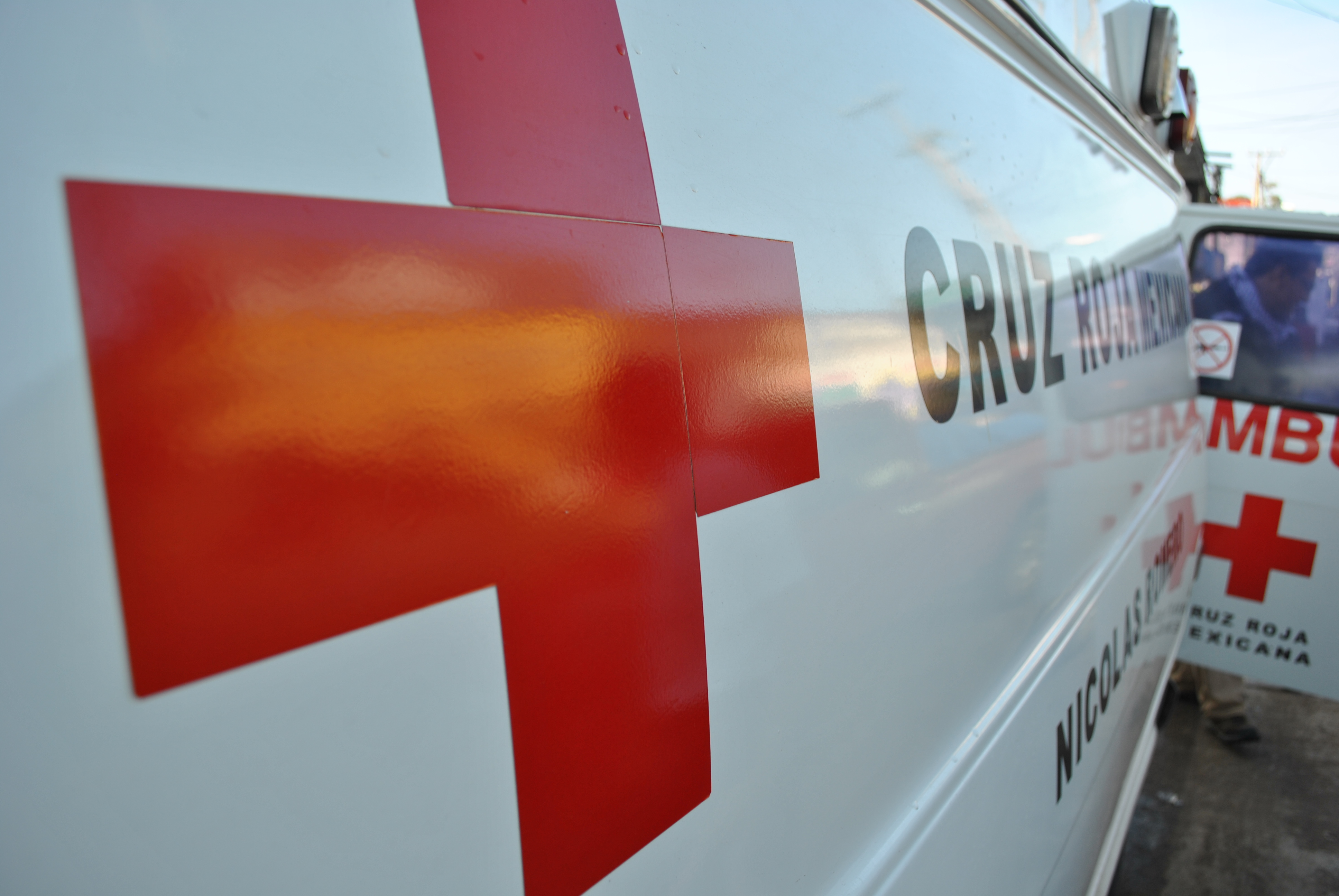 Red Cross ambulance in the Mexican state of Mexico.